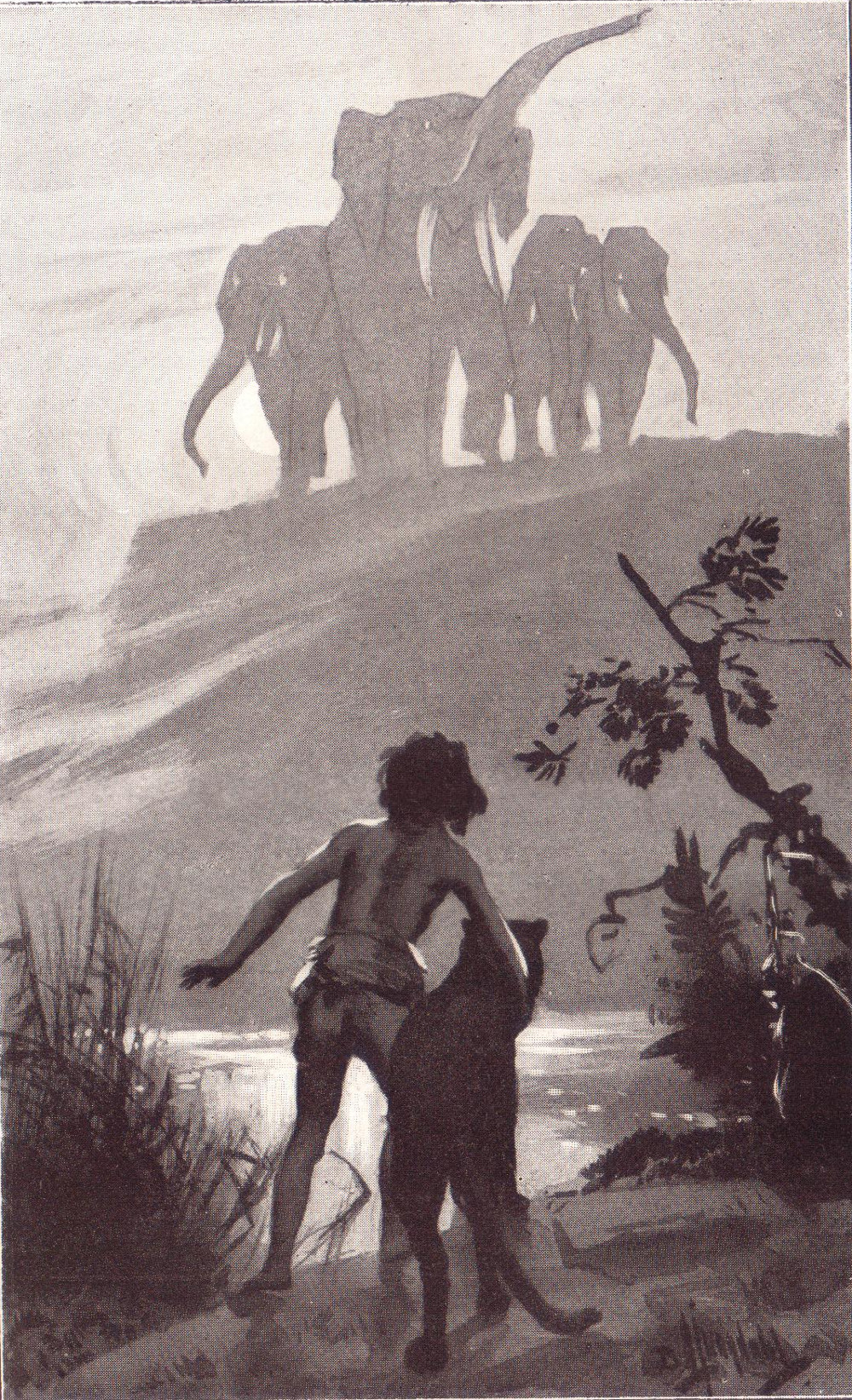 Illustration from "How Fear Came" in Rudyard Kipling's The Second Jungle Book